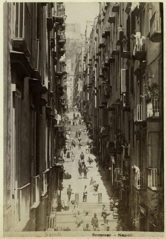 Giorgio Sommer (1834-1914), Street of Naples.